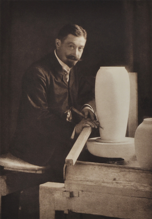 Portrait of Theo Schmuz-Baudiß (1859-1942)